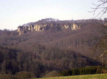 The Hohenstein crags on the Süntel hills in Lower Saxony, Germany